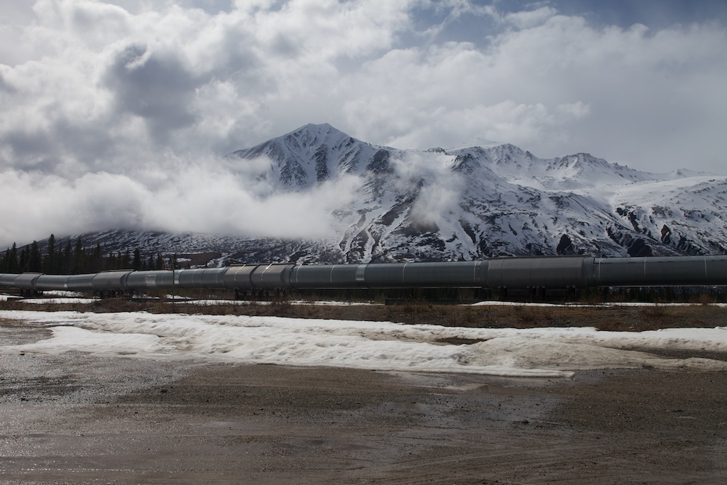 The Alyeska oil pipeline, which runs from Prudhoe Bay to Valdez. This is on S.R. 4, south of Delta Junction. It's on a fault line, so this stretch is built to withstand a substantial earthquake -- the pipe can move several feet in any direction without breaking.